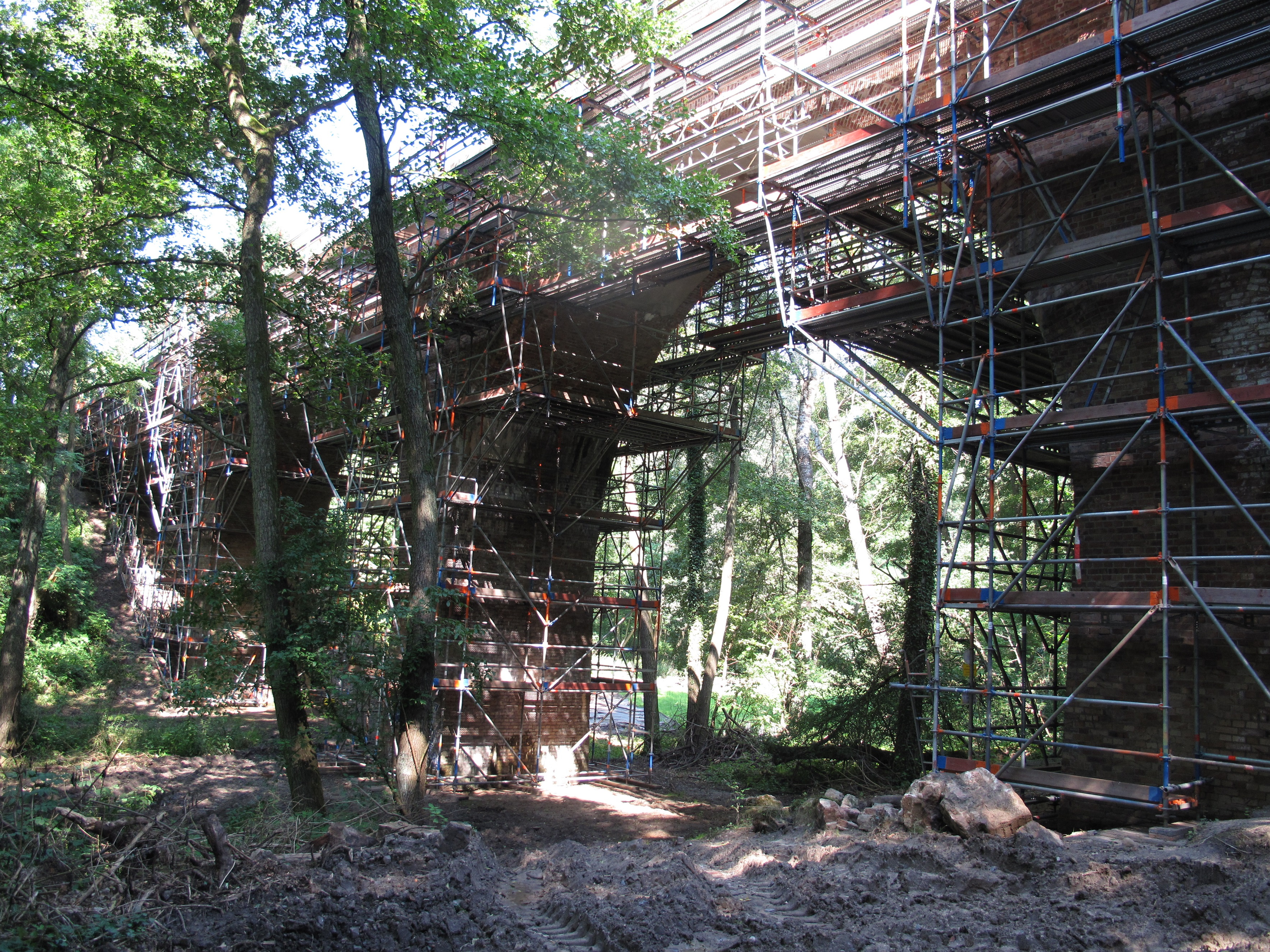 The Lindenberger Viadukt during its renovation in July 2014. The listed Lindenberger Viadukt (sometimes also called: Glienicker Viadukt) is an about 95 Meter long arch bridge of the Railway line Königs Wusterhausen–Grunow in the District Oder-Spree, Brandenburg, Germany. The viaduct is situated in the west of the station Lindenberg. The bridge spans the about 25 m deep Chine of Glienicke (german: Schlucht von Glienicke) in the valley of the Blabbergraben. The bridge was opened in 1898, destroyed at the end of World War II and rebuilt in 1949.